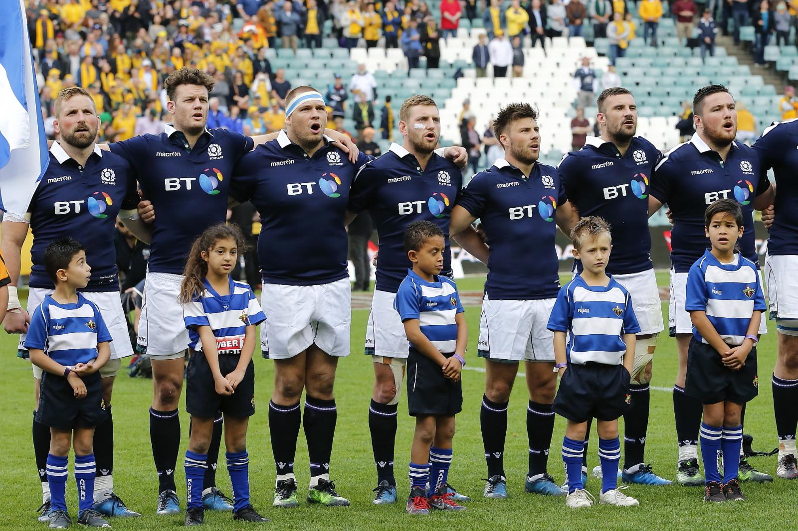 2017.06.17.15.04.36-AUSvSCO anthems-0001 The 2017 mid-year rugby union international, 17 June 2017, Australia vs Scotland at Allianz Stadium, Sydney